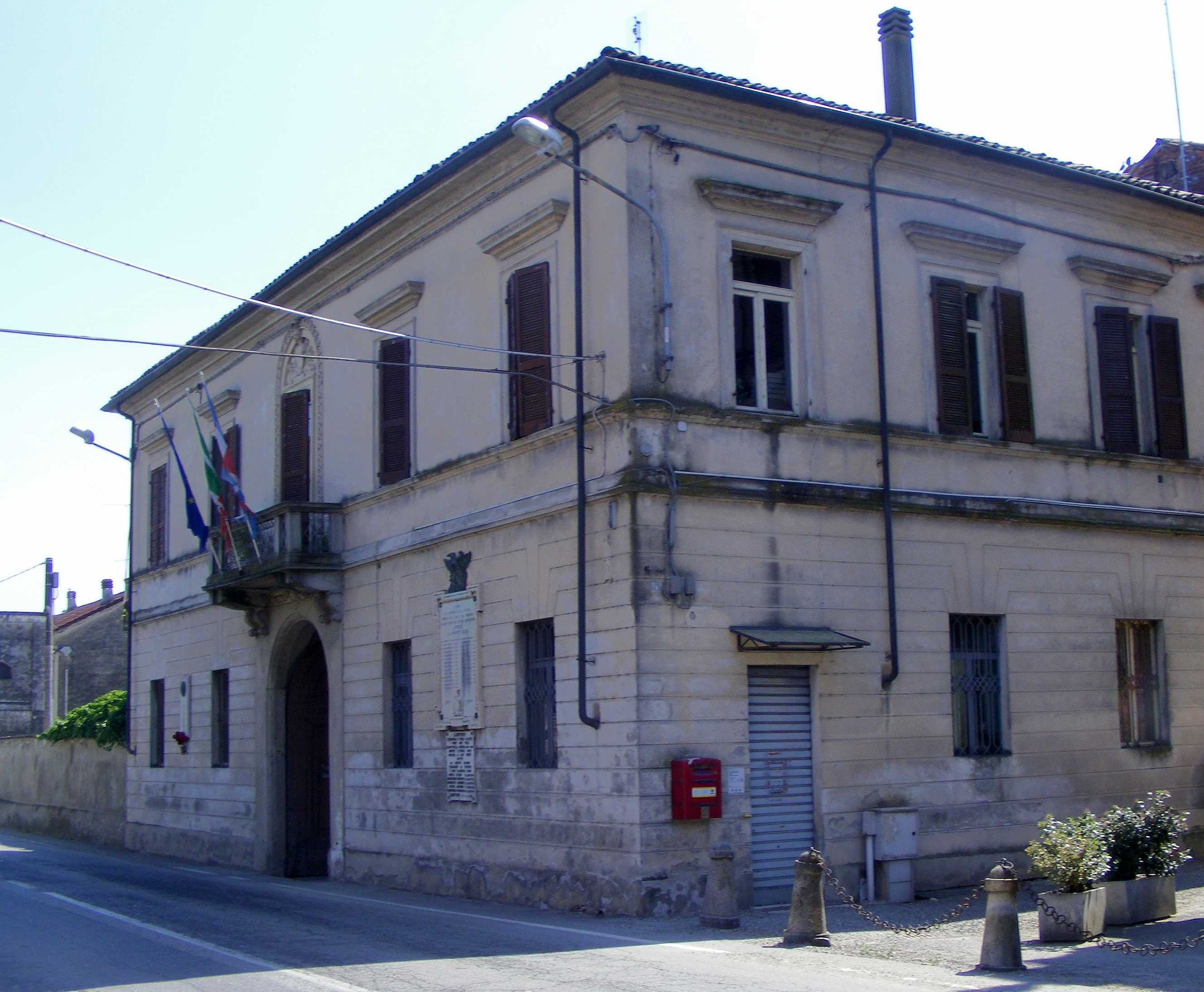 Lamporo (VC, Italy): town hall